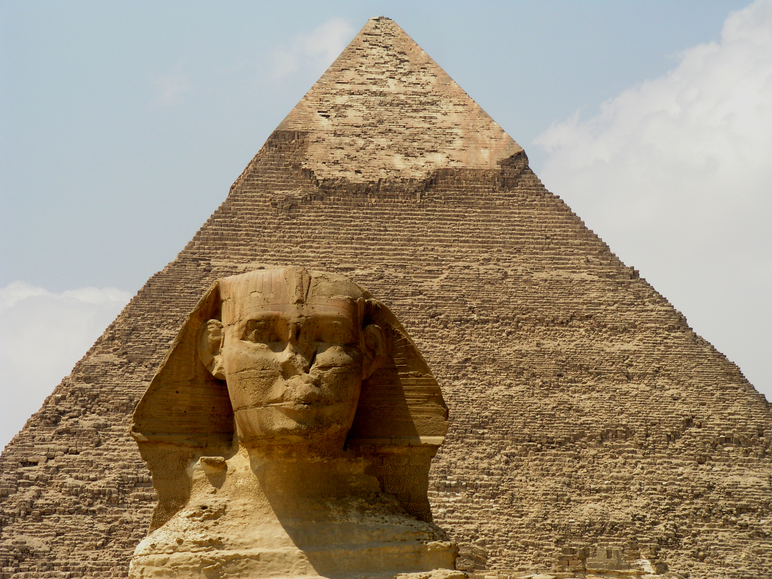 The Pyramid of Khafre and the Great Sphinx of Giza on the Giza Plateau, Cairo, Egypt.